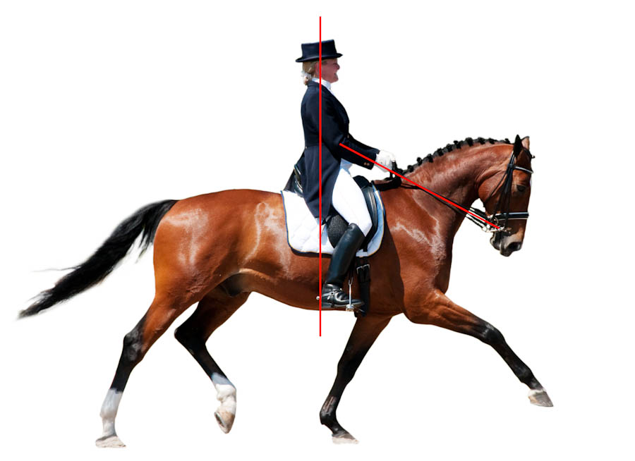 normal seat, vertical seat in dressage riding